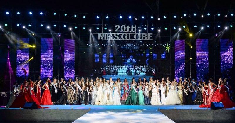 20th anniversary group photo of Mrs Globe